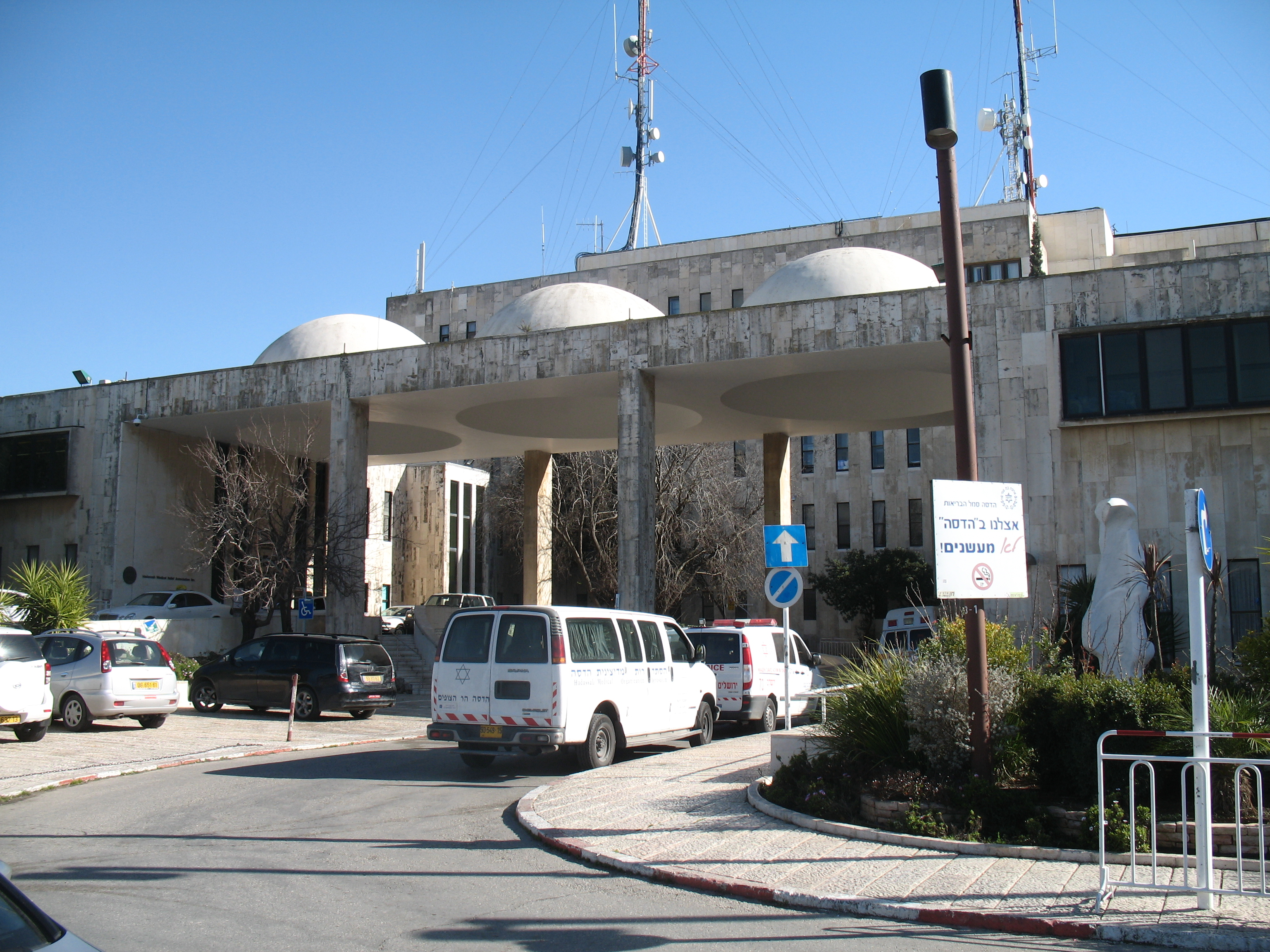 Hadassah University Hospital, Mt. Scopus